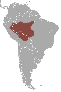 Peruvian Spider Monkey (Ateles chamek) range